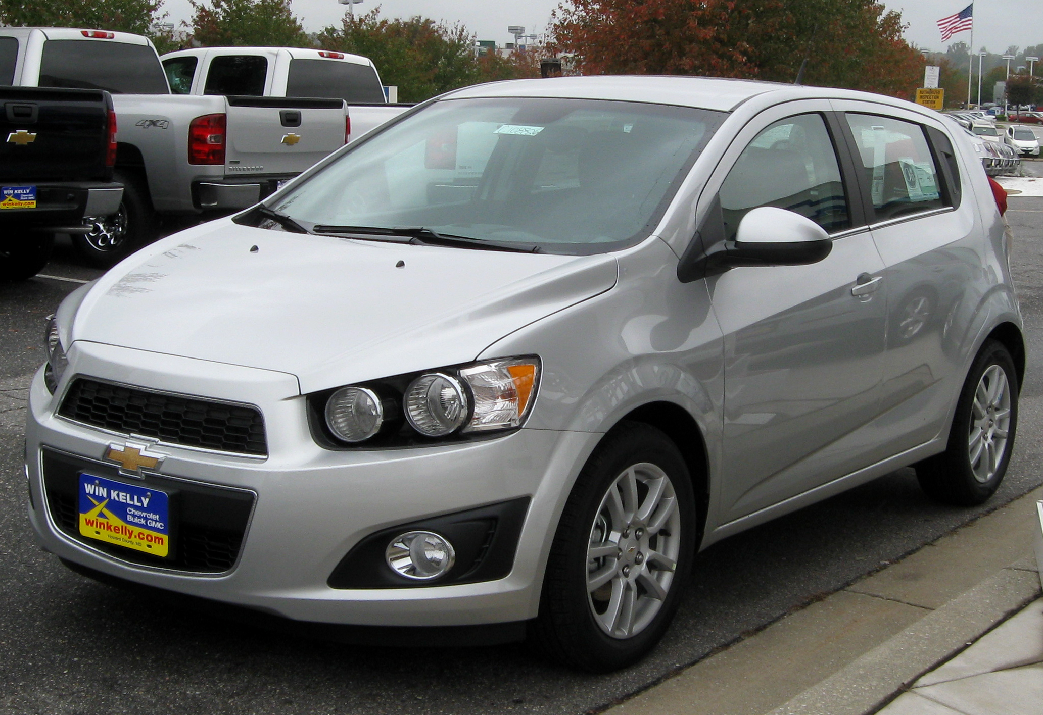 2012 Chevrolet Sonic photographed in Clarksville, Maryland, USA.